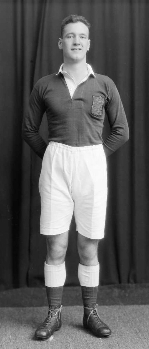 WB Welsh, member of the British Lions rugby union team